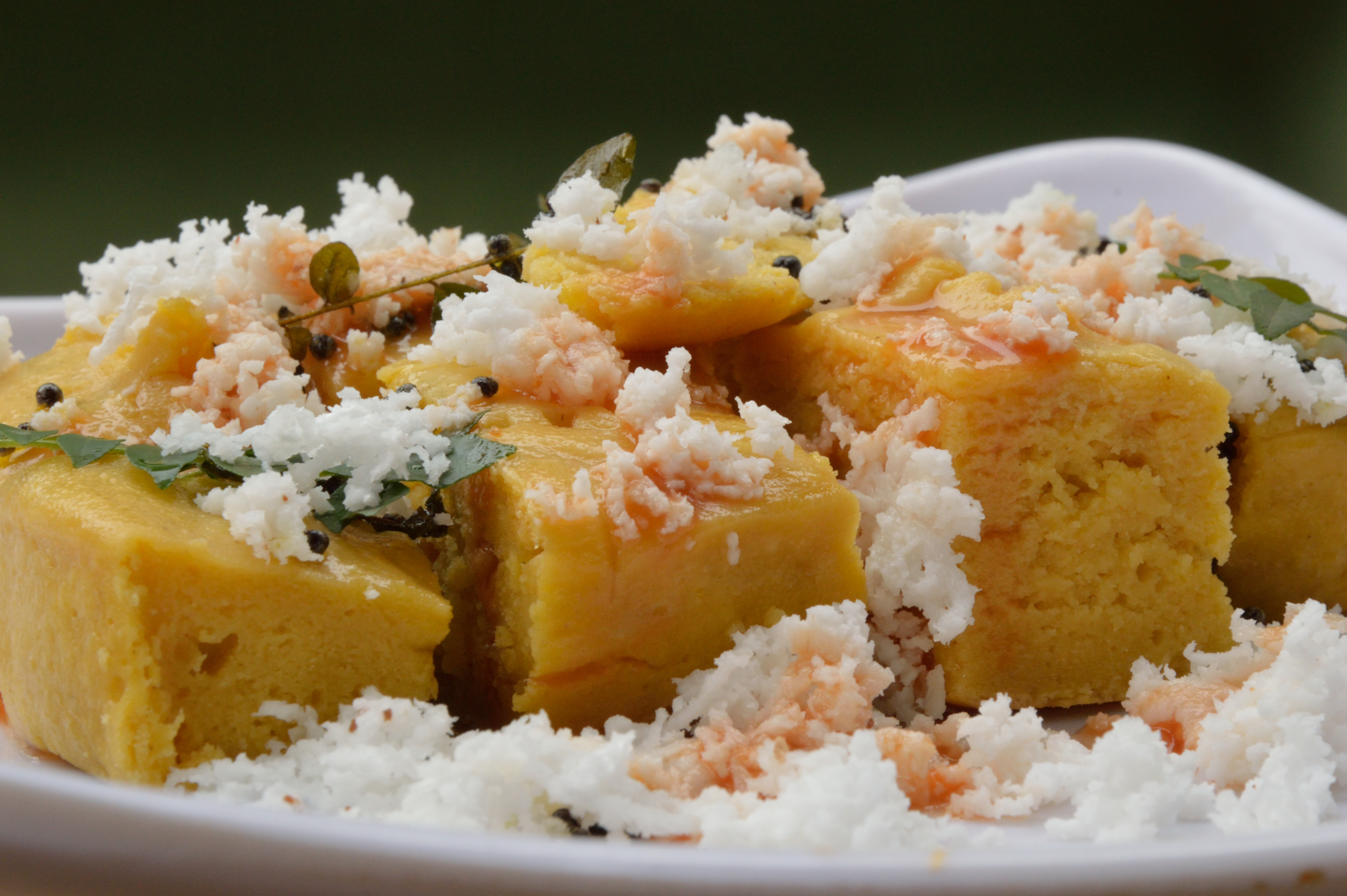 The Besan Dhokla is a home-cooked preparation by Subrata Ganguly at her residence. Photographed in Howrah, West Bengal.